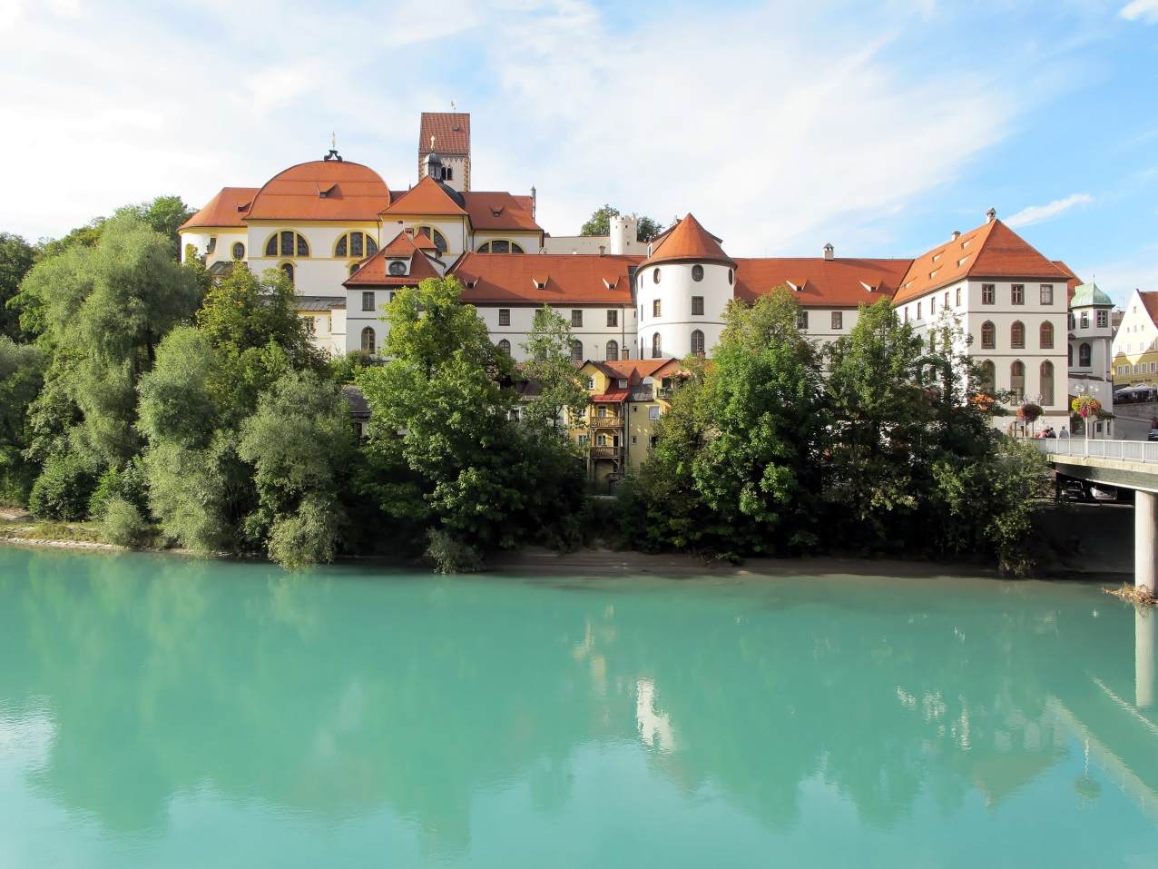 Füssen, Castle "Hohes Schloss" from River Lech